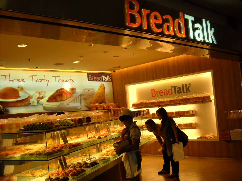 BreadTalk, a cake and bread shop, in Jakarta, Indonesia.